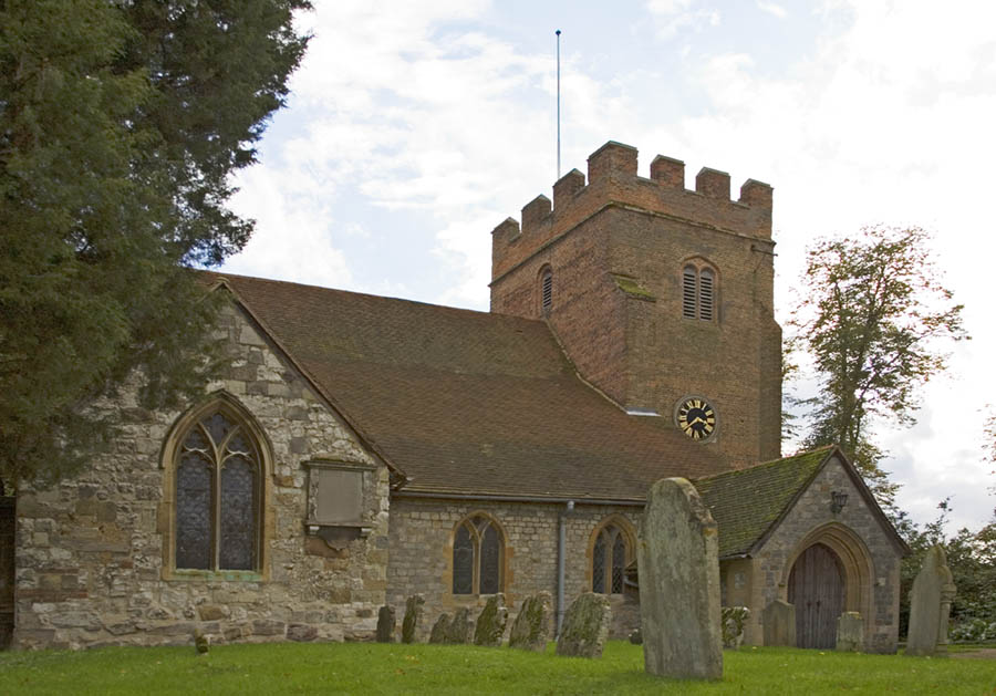 St Mary's parish church, Thorpe, Surrey, seen from the north